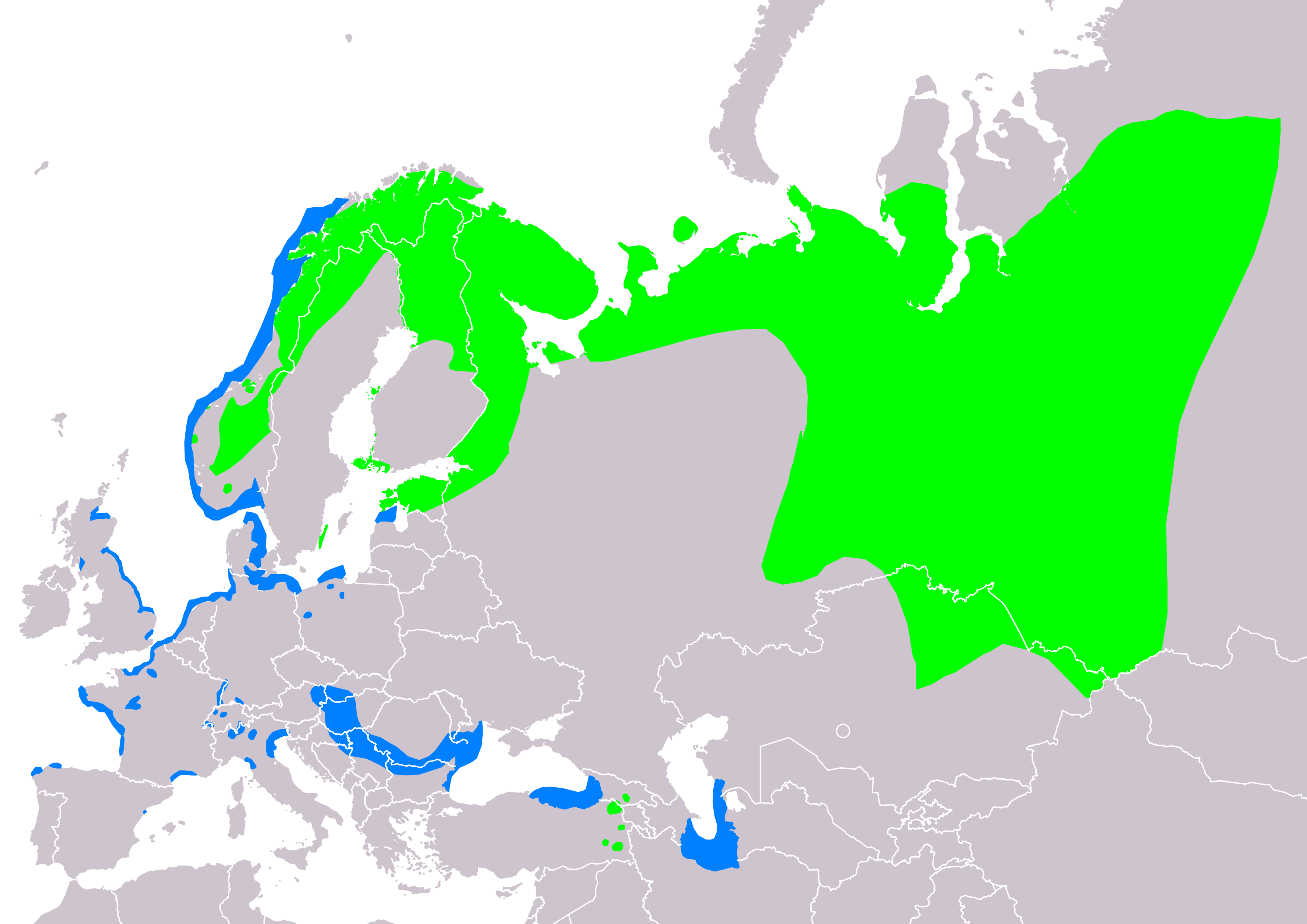 map of velvet scoter (Melanitta fusca) according to IUCN version 2018.2 , Legend: Extant, breeding (#00FF00), Extant, non-breeding (#007FFF)